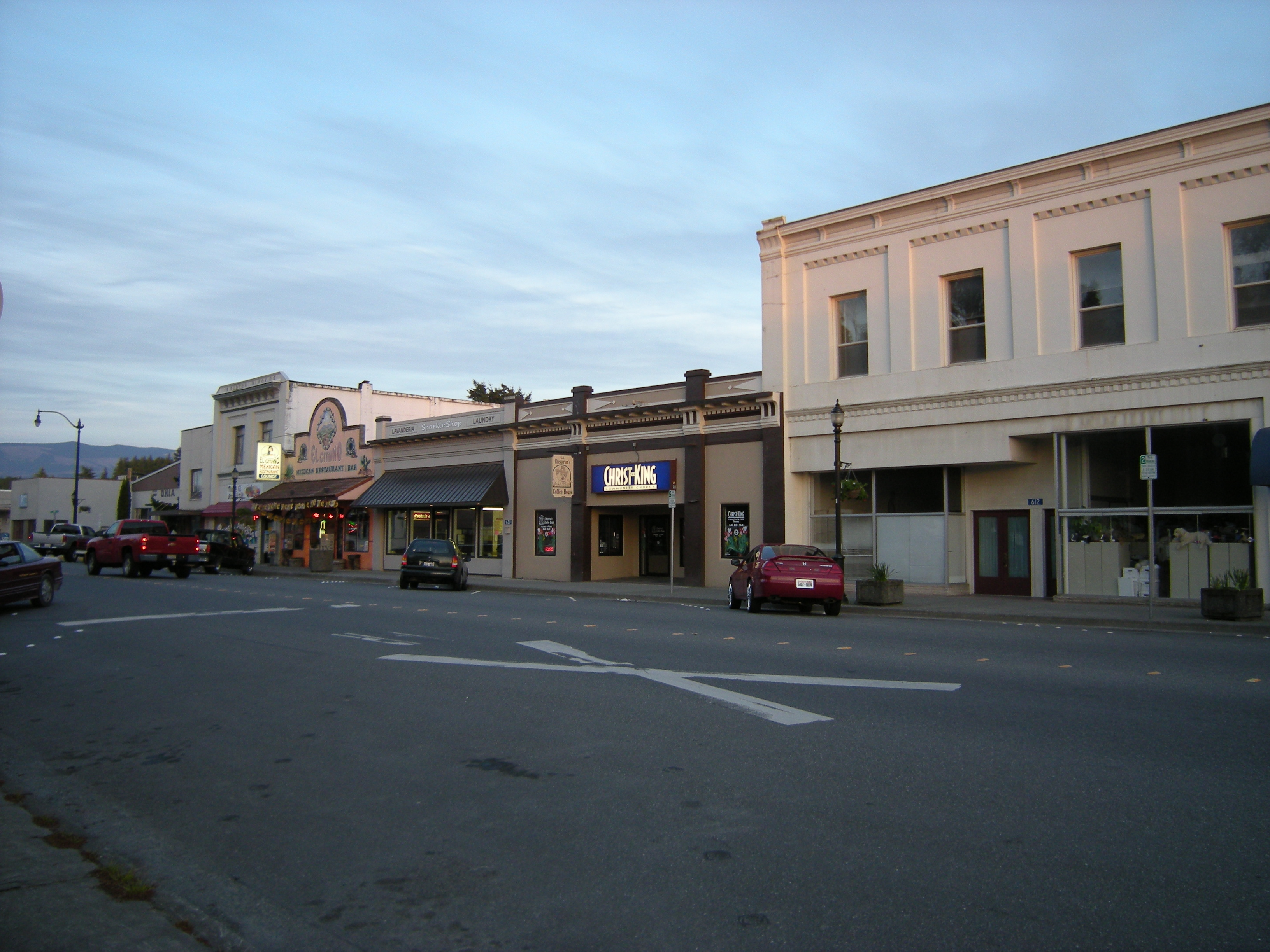 South side 600 block of E. Fairhaven Avenue, Burlington, Washington, USA, including Mexican restaurants and Christ the King Community Church with G.K. Chesterton's Coffee House.